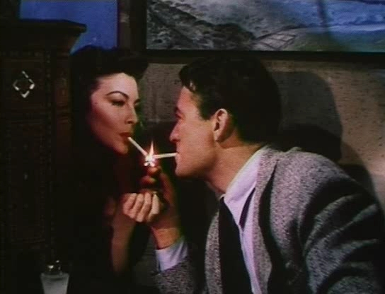 Screenshot of Ava Gardner and Gregory Peck from the film The Snows of Kilimanjaro